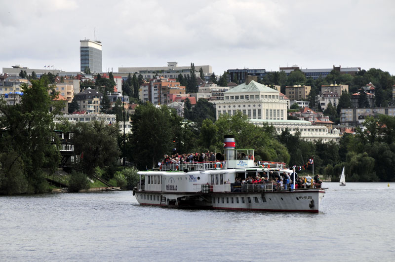 Boat Vyšehrad